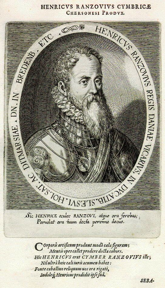 Heinrich Rantzau The text means: Heinrich Rantzau, representative for the king of the Danes, in the area of Schleswig, holstein und Dithmarsken, Master of Breitenburg etc.